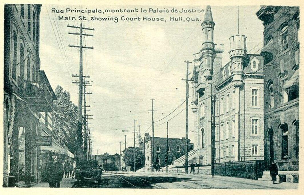 Postcard of "Main Street" in Hull, Quebec, Canada, showing the court house. Main Street, also known as "Rue Principale", was later renamed "Promenade du Portage".